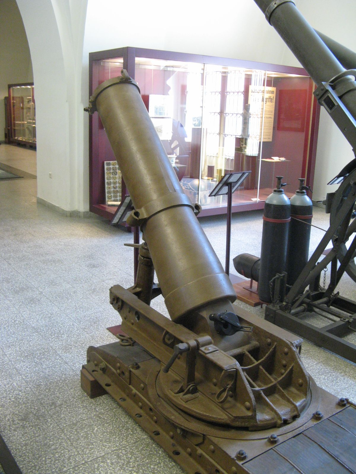 Böhler 26cm mortar M1917 located at the Heeresgeschichtliches Museum